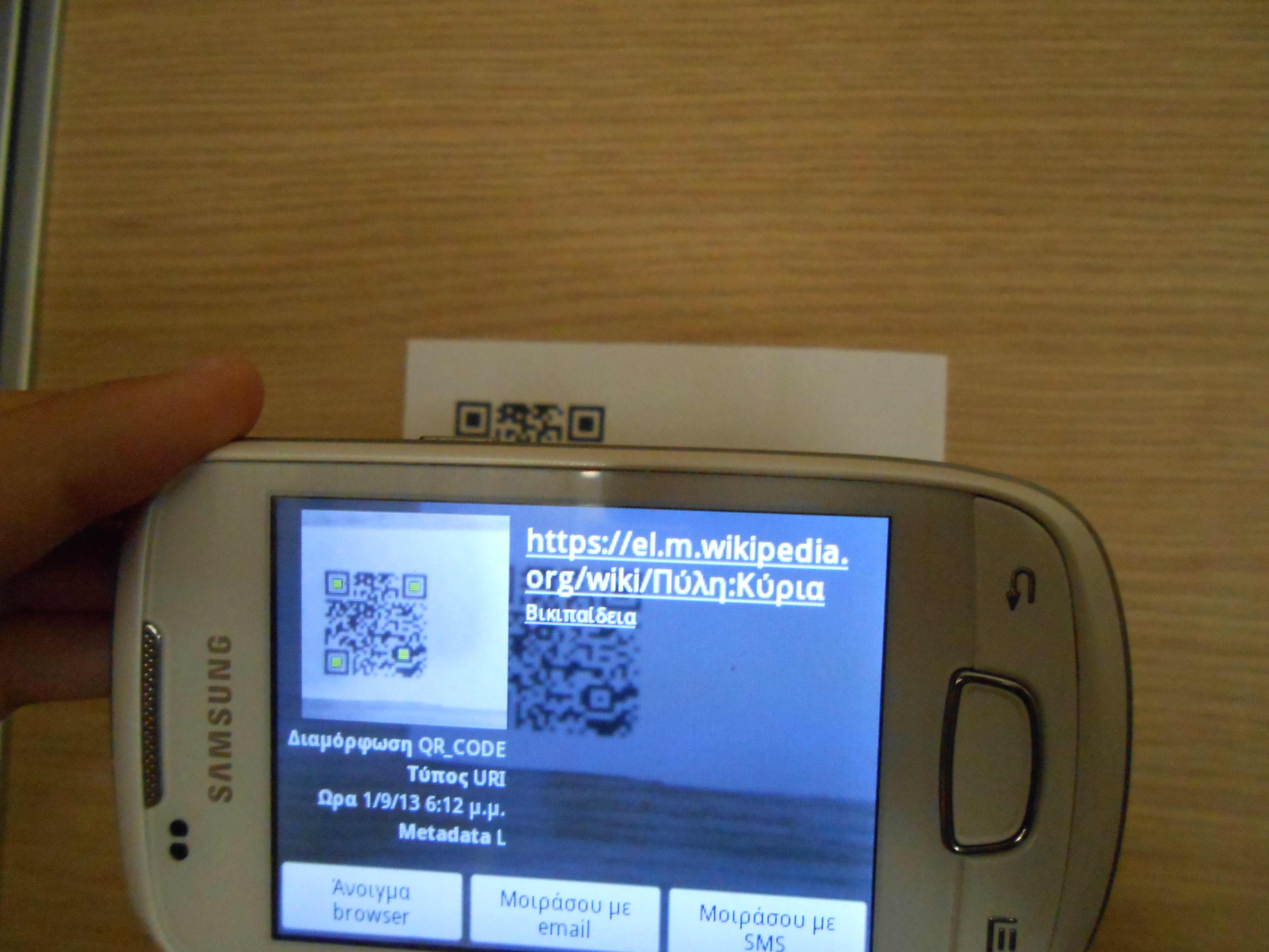 A simple QR code scan